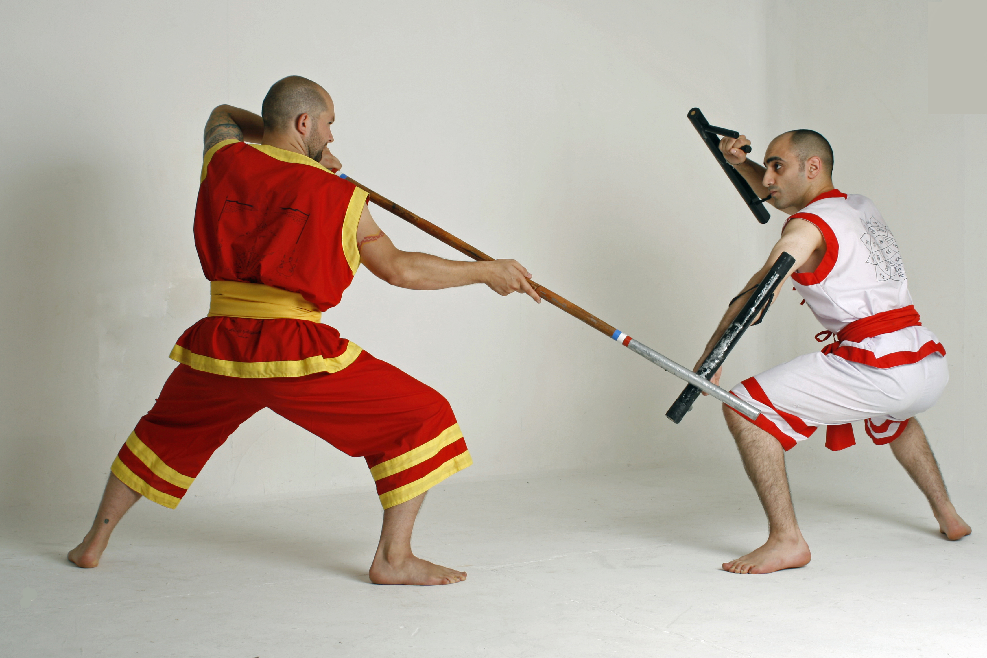 Plong and Mai Sawk